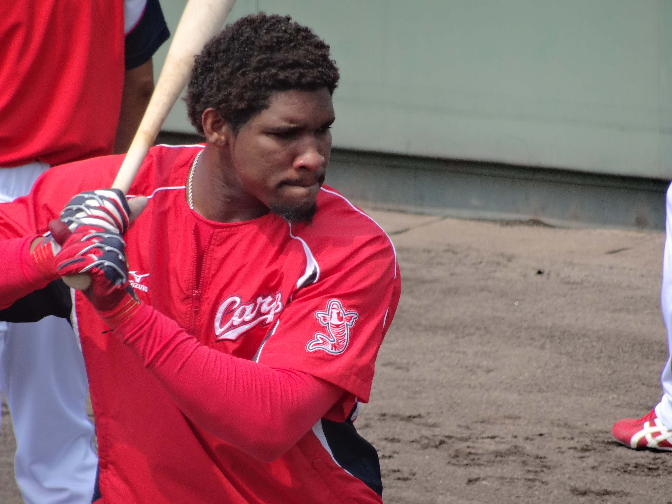 Rainel Rosario, outfielder of the Hiroshima Toyo Carp, at Hanshin Naruohama Baseball Ground.